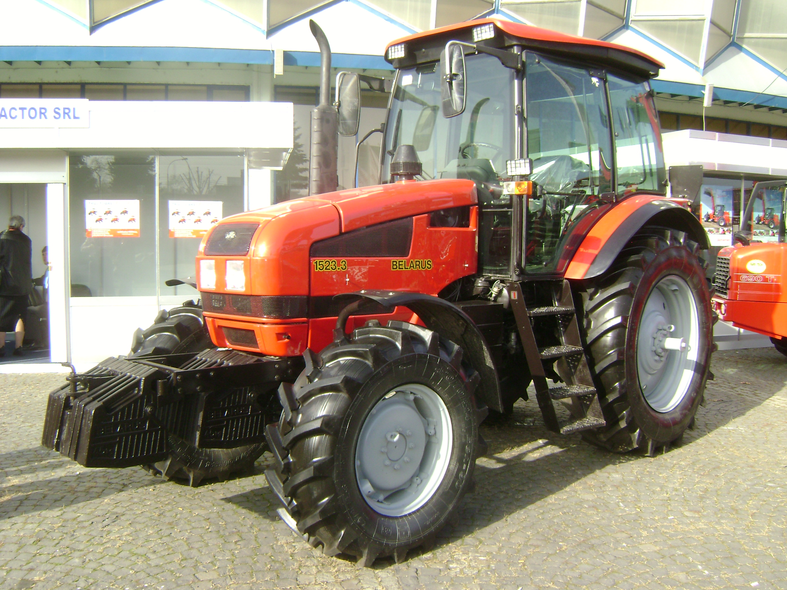 MTZ-1523.3 Belarus Tractor seen in Bucharest, Romania at Romexpo during the 2010 IndAgra Farm international exhibition of equipment and products from the fields of agriculture, animal husbandry and foodstuff